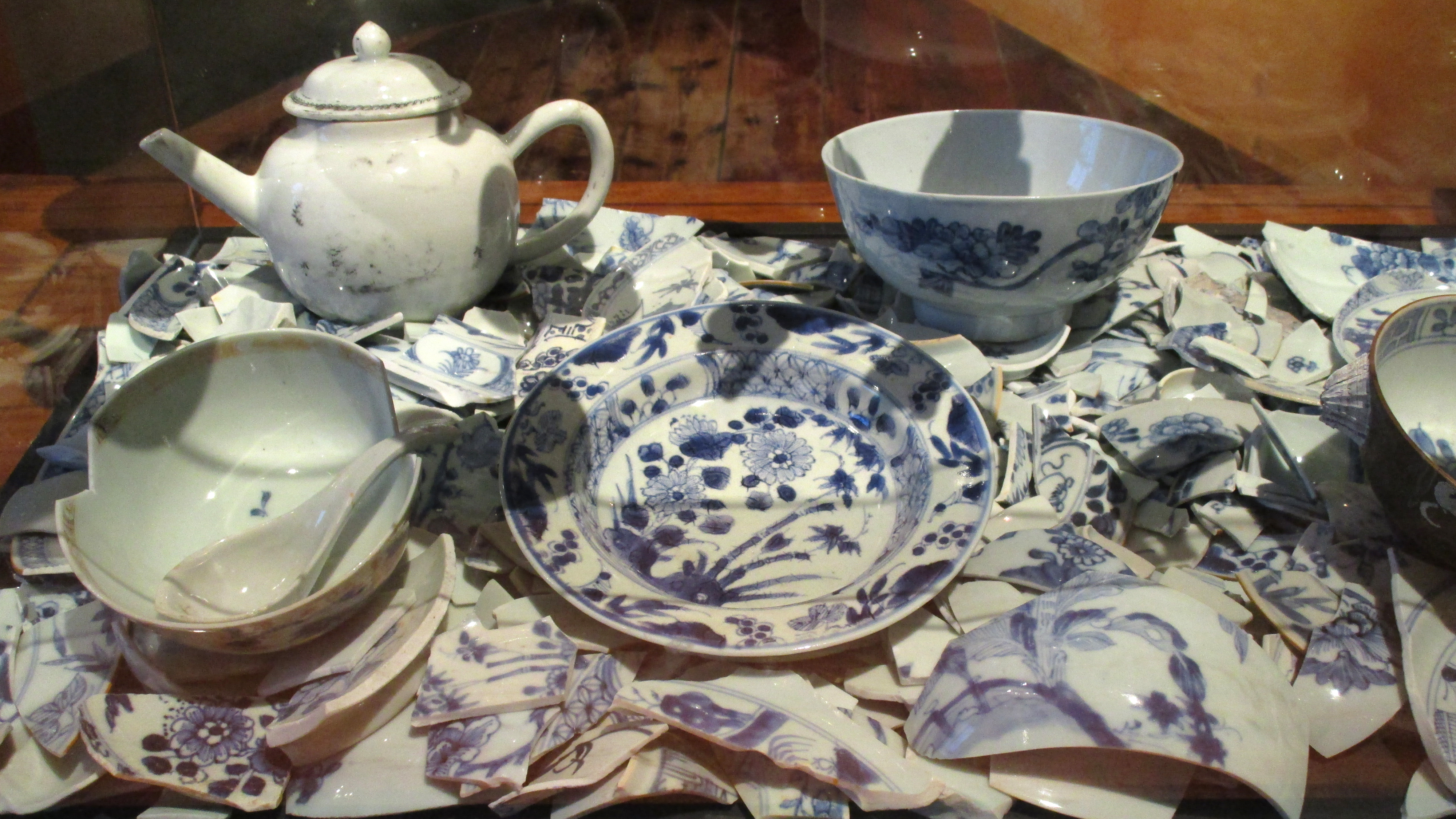 Porcelain items from the cargo of the original Götheborg recovered during the excavation. Now in the Gothenburg Maritime Museum.